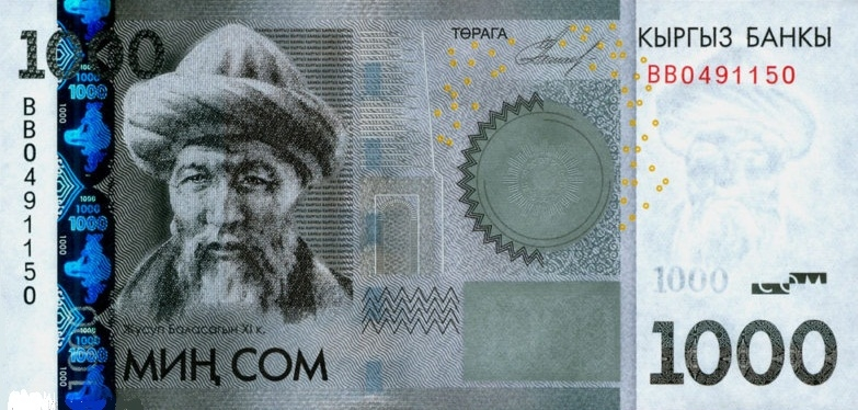 1000 som 2010 obverse